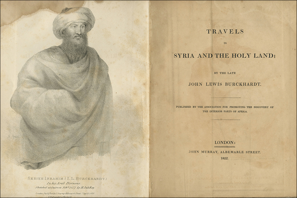 Frontispiece and title page of und Titelblatt von "Travels to Syria and the Holy Land" by John Lewis Burckhardt, published by the Association for promoting the discovery of the interior parts of Africa. London 1822